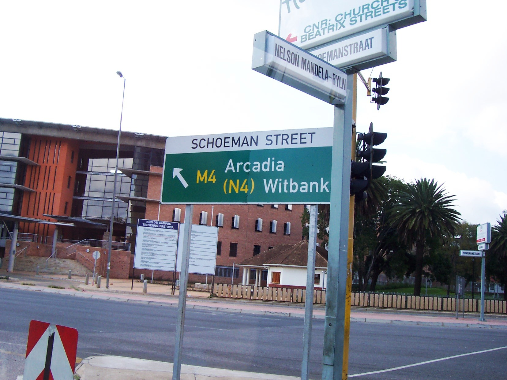 A random street from Pretoria / Southafrica. I have taken this picture myself in January 2005.